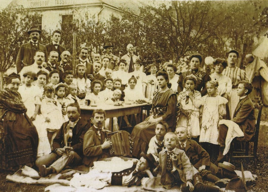 Party at Reschinsky